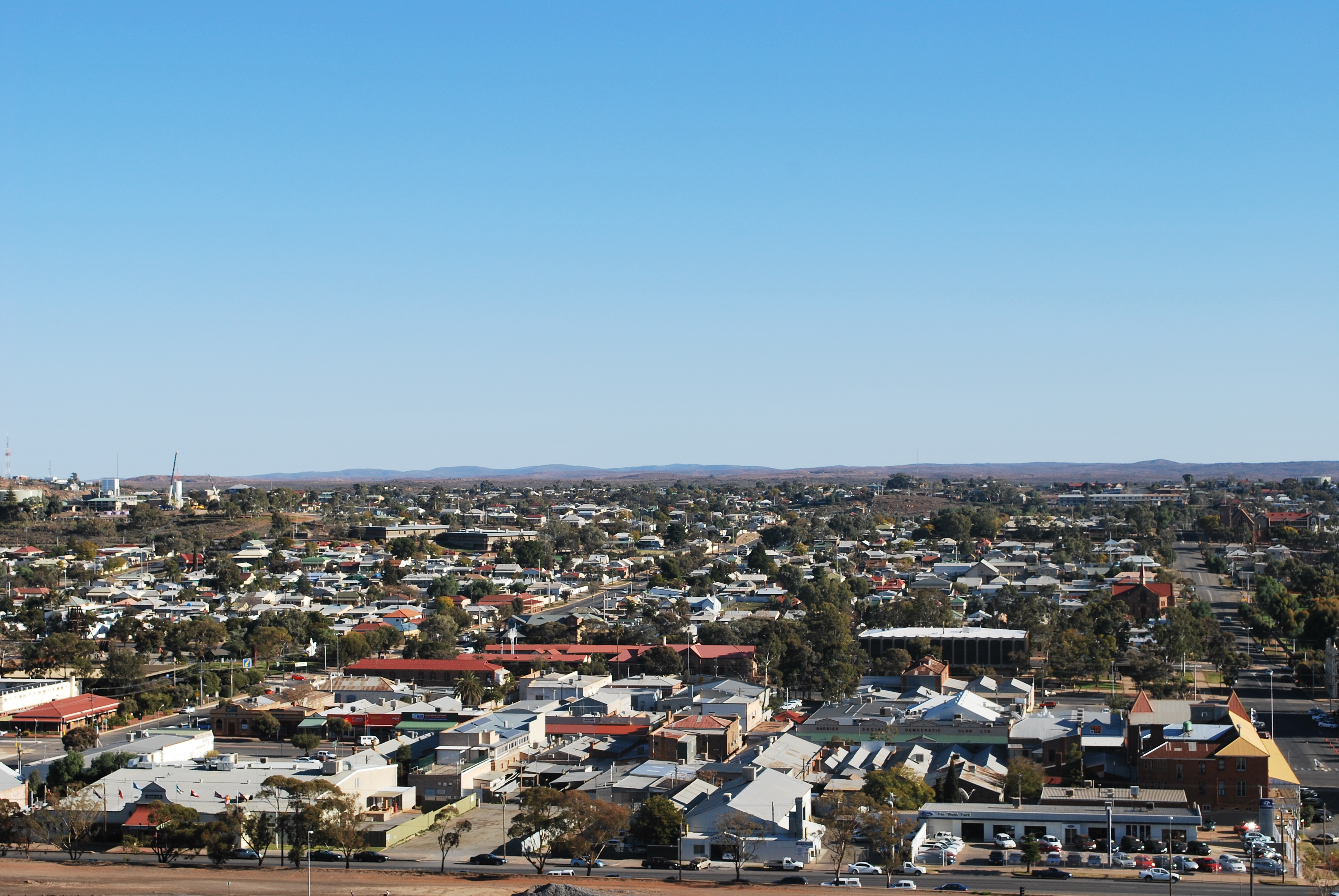 Broken Hill, New South Wales as seen from the Visitor centre atop the mullock heap.